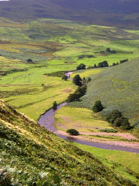 River Breamish. View to the west towards Alnhammoor from Prickley Knowe